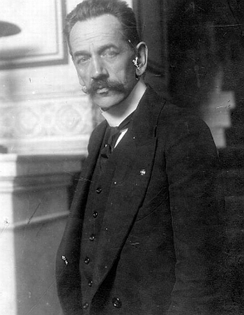 Jędrzej Moraczewski